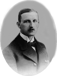 Oval bw photo portrait of German painter Claus Bergen ca. 1915 Claus Bergen